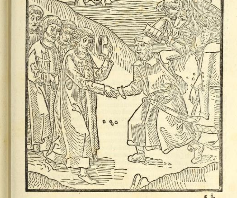 Prince Djem, brother of Bayezid II and rival of the Ottoman Sultan, arrives in Rhodes. 1482.